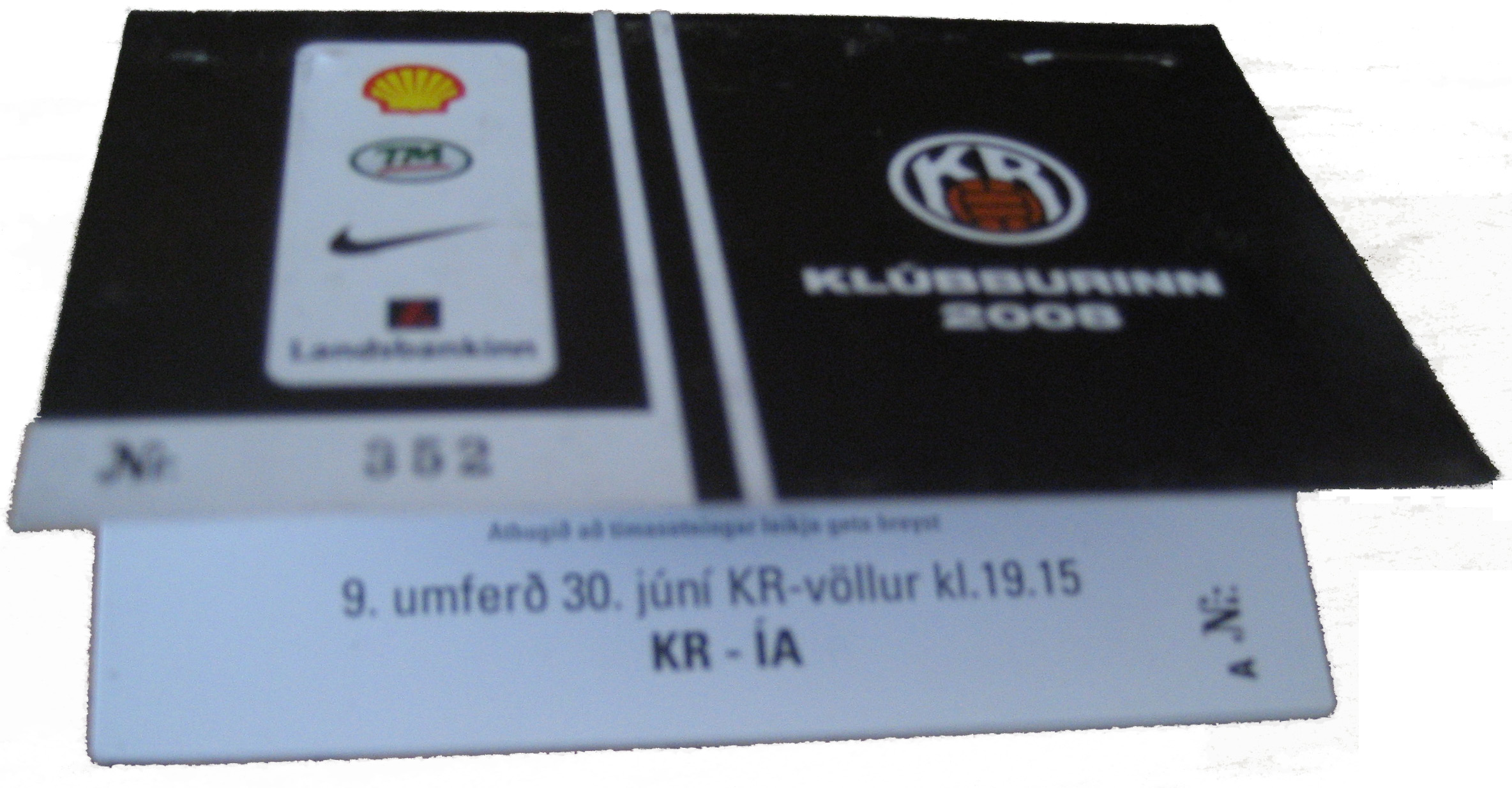 The 2008 season tickets for the Icelandic soccer team KR